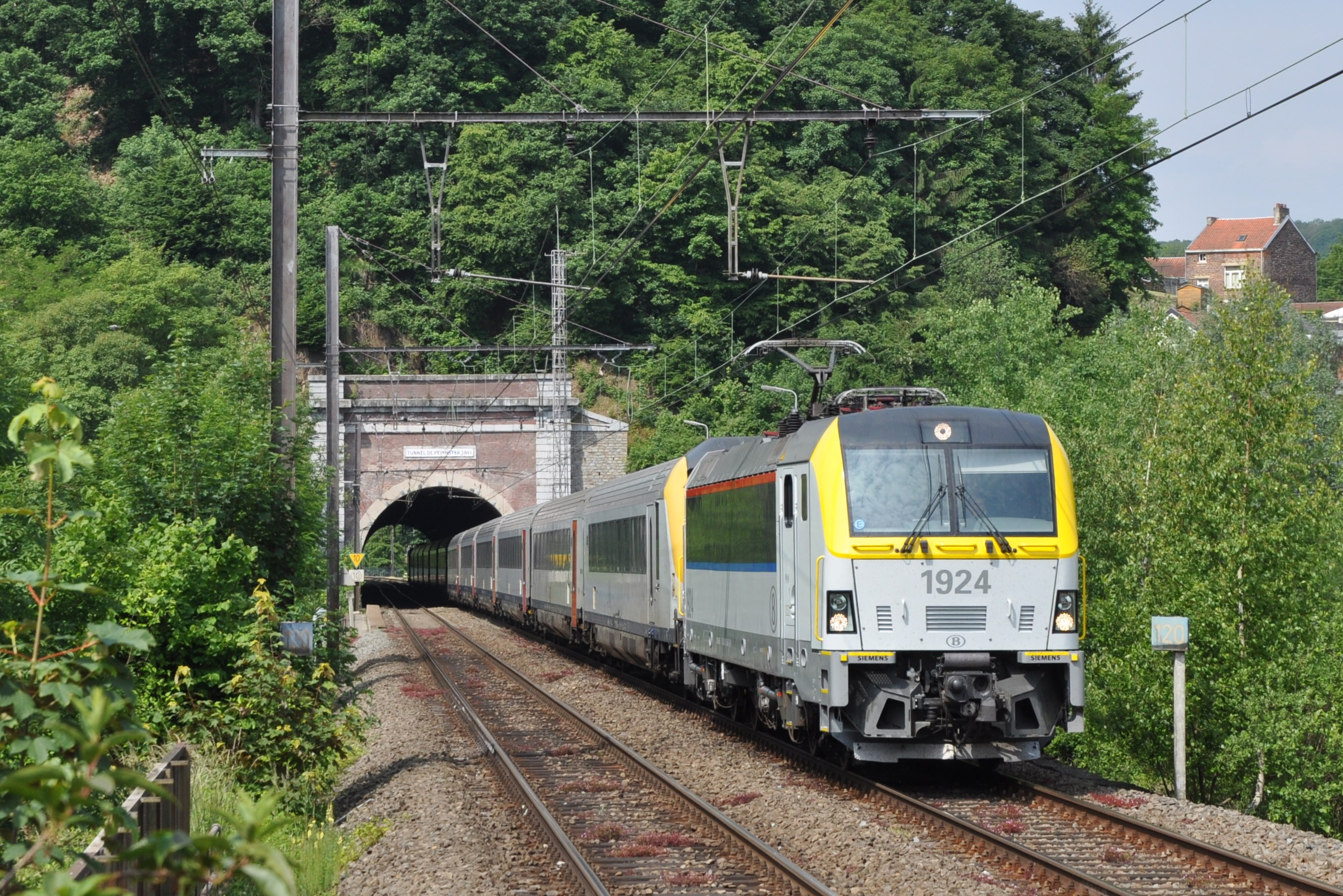 Class 18 locomotive with IC A train to Eupen passes Pepinster and its tunnel.